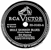 A record label of the "Mule Skinner Blues", performed by Bill Monroe & his Bluegrass Boys